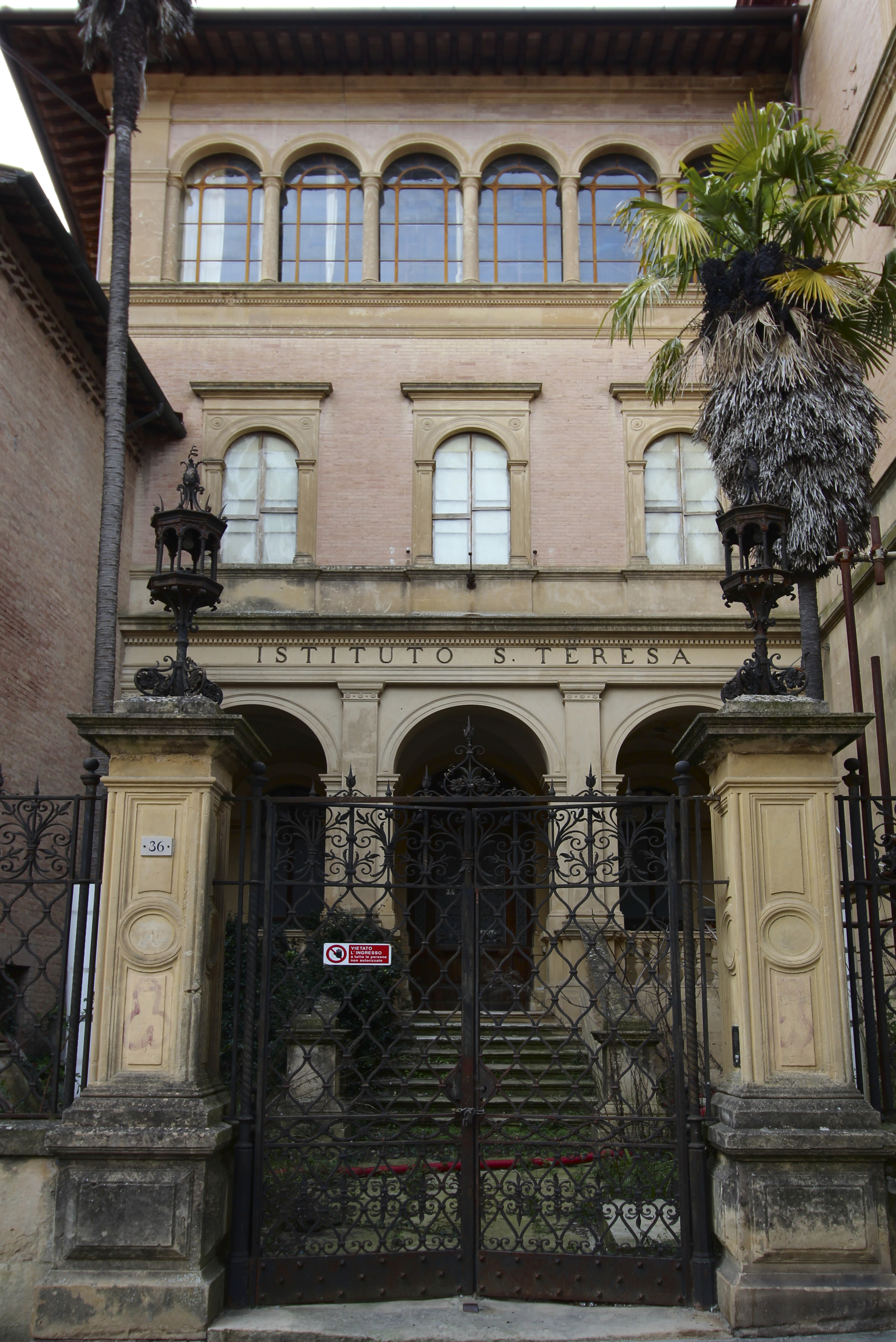 Institute "Istituto di Santa Teresa", Via San Quirico, Siena, Province of Siena, Tuscany, Italy